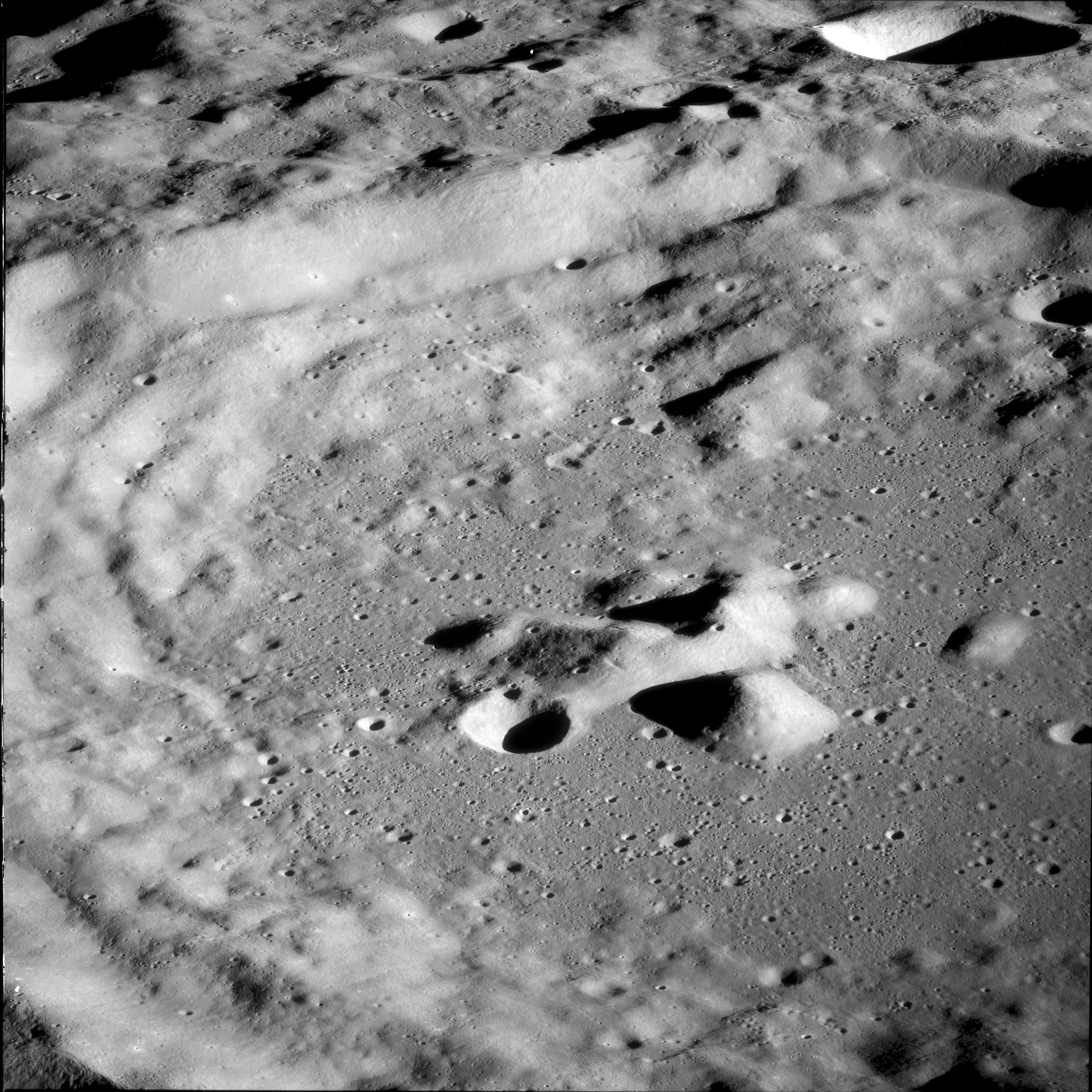 Oblique view of the interior of Daedalus crater, on the far side of the moon.